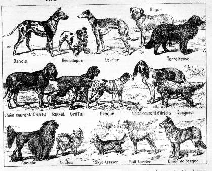 Dog breeds from the Petit Larousse, 1912